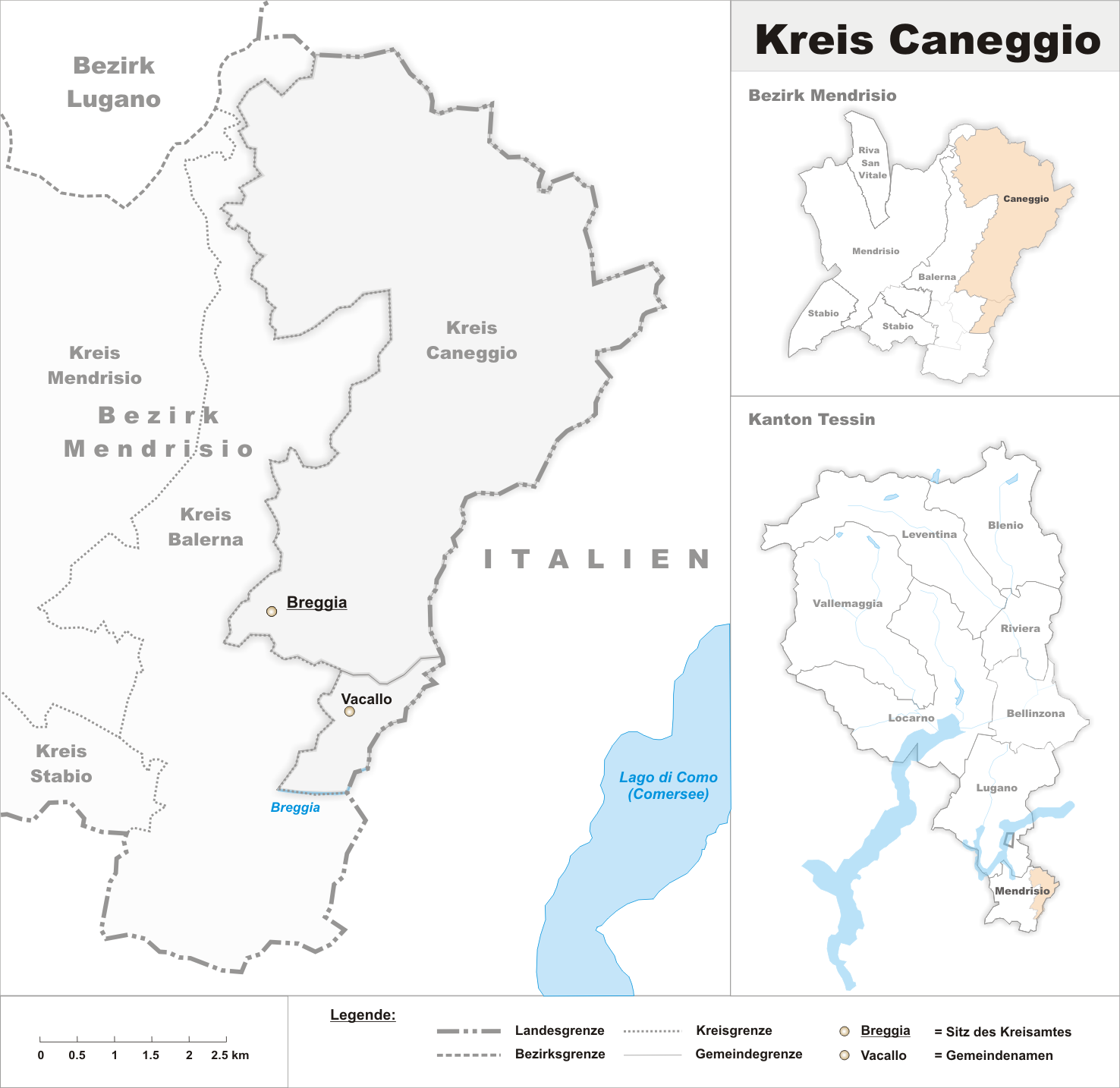 Municipalities in the circle of Caneggio